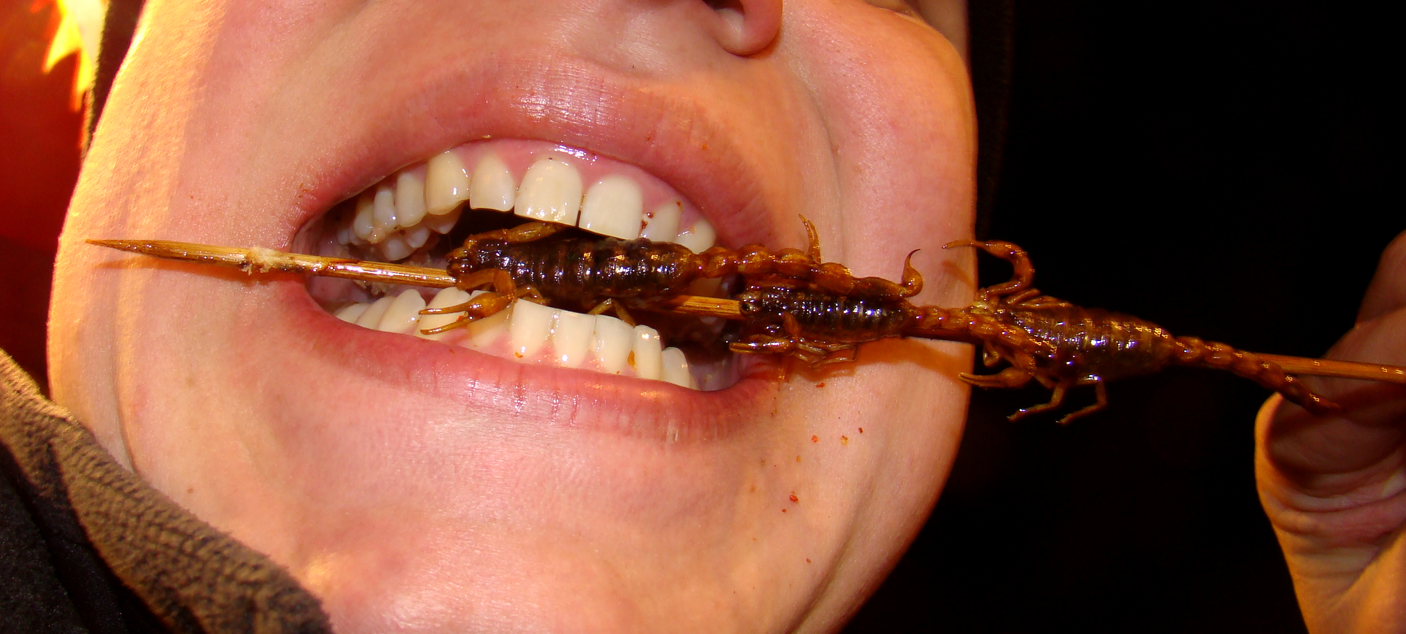 Eating scorpions in Donghuamen, Beijing, China